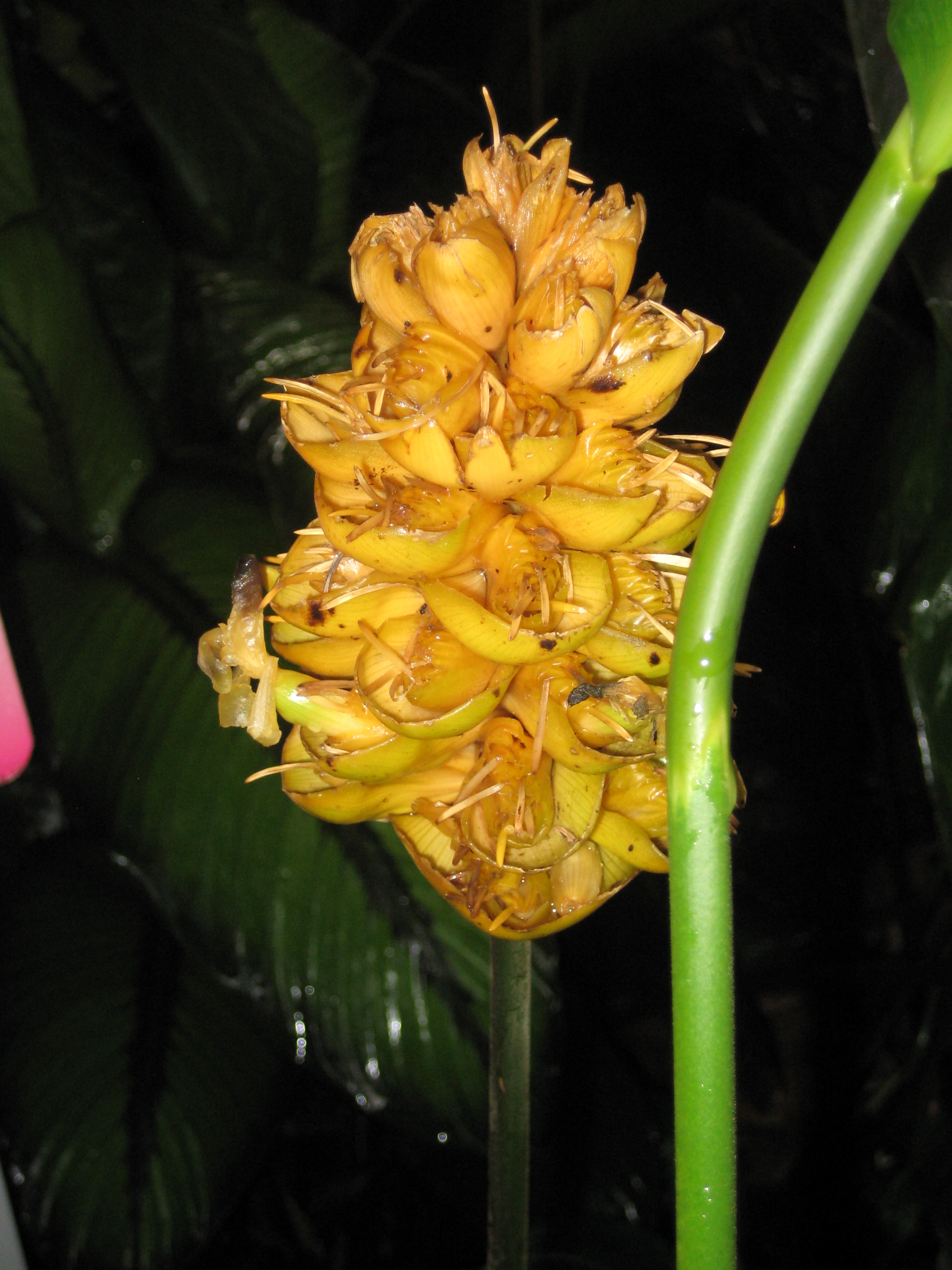 Calathea majestica 'Princeps' inflorescence Royal Botanic Garden Edinburgh: Accession number 1967.2400 A